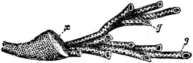 Part of a branch of Crisia eburnea: g, zooecia; x, imperfectly developed ovicell.